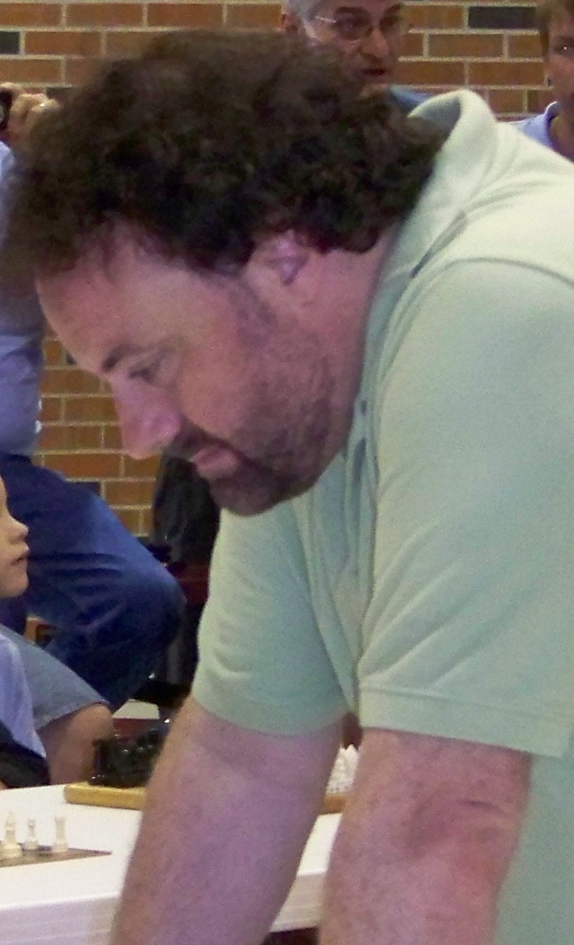 Jonathan Sarfati (right) playing chess against multiple players at the Heartland Creation Conference, Wichita, Kansas,.